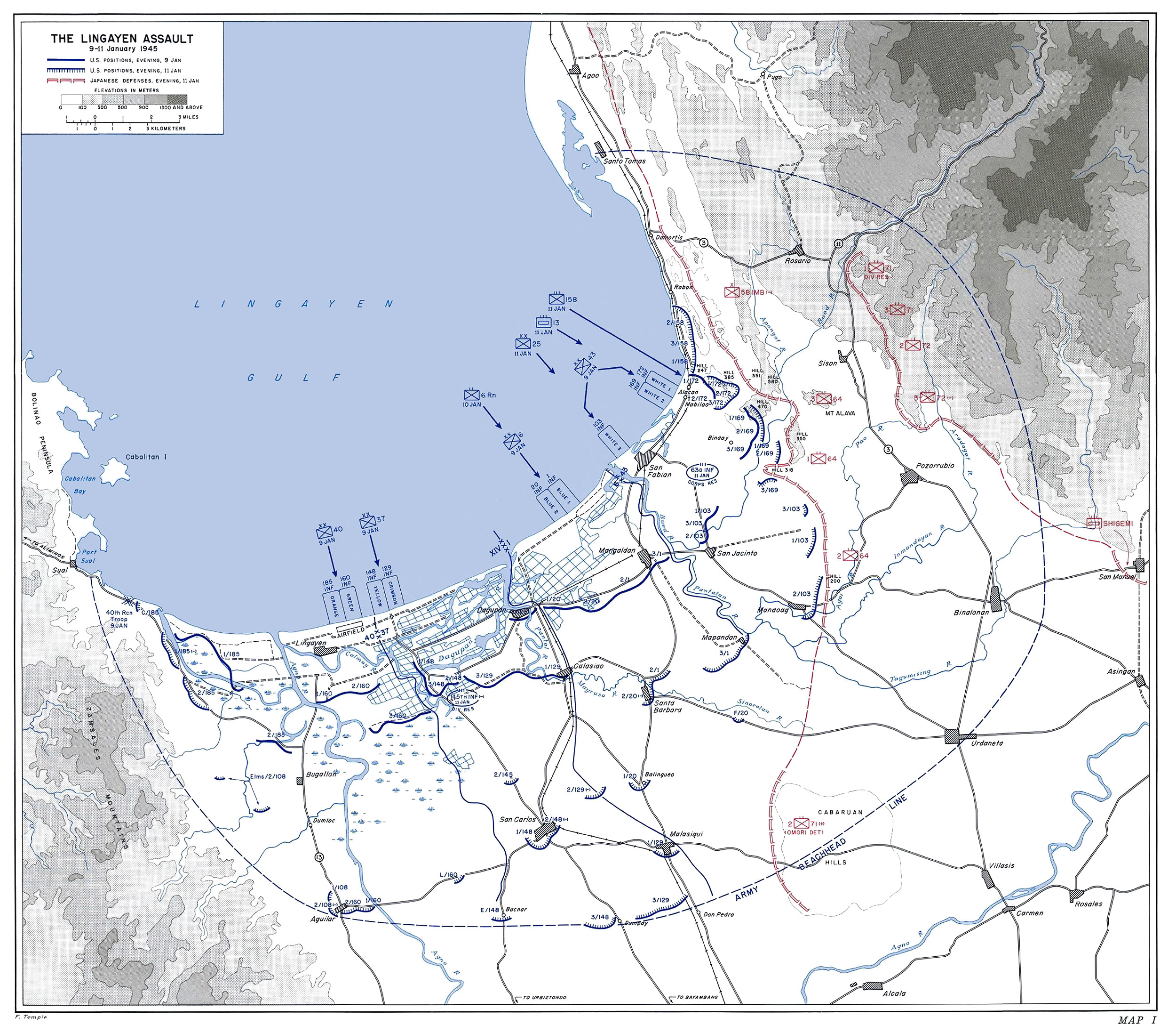 Map shows Lingayen Gulf Invasion Beaches (White, Blue, Crimson, Yellow, Green and Orange) on 9 January 1945 and beachhead perimeter on 11 January 1945.